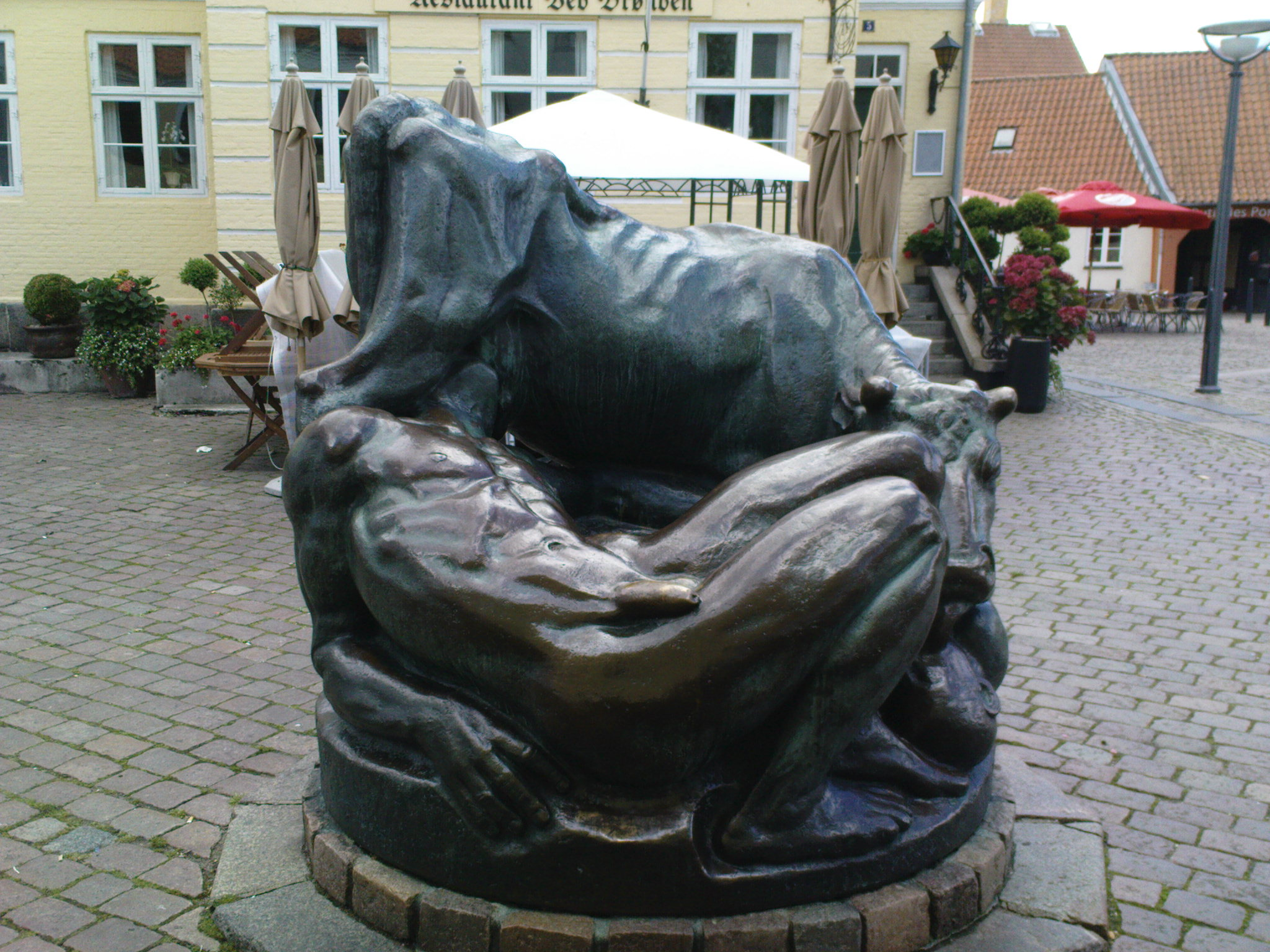 Ymerbrønden by Kai Nielsen in Gaaborg, Denmark